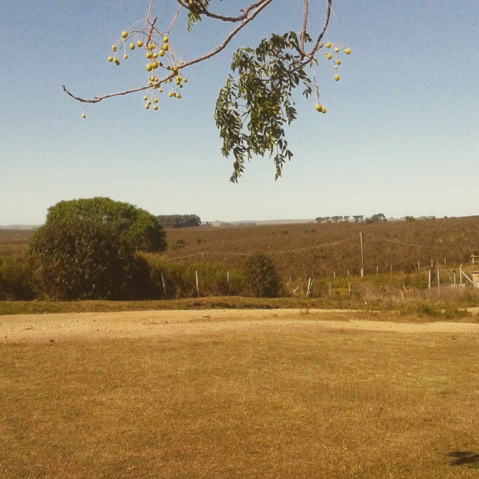 Countryside